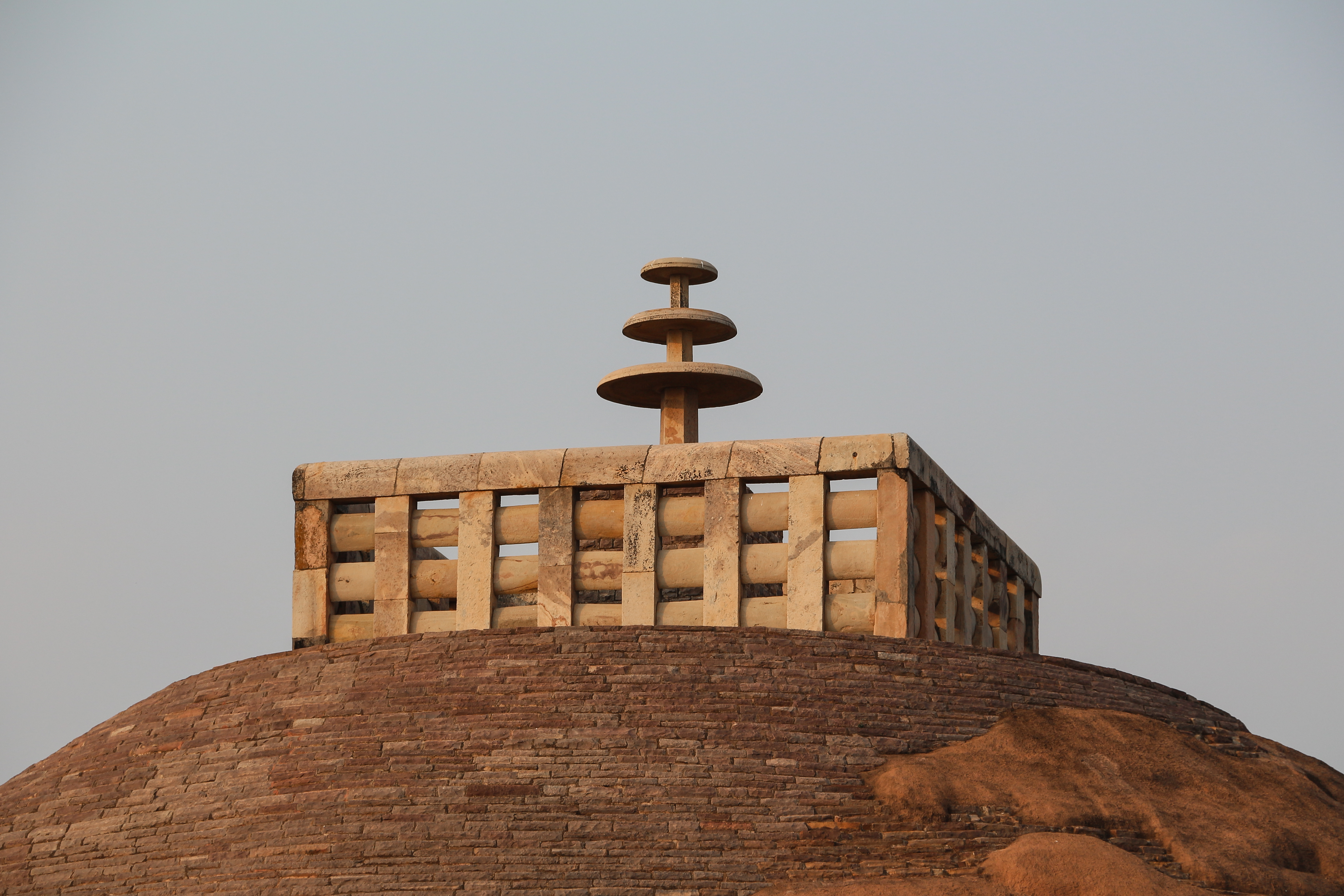 Top of Stupa 1, Sanchi, India